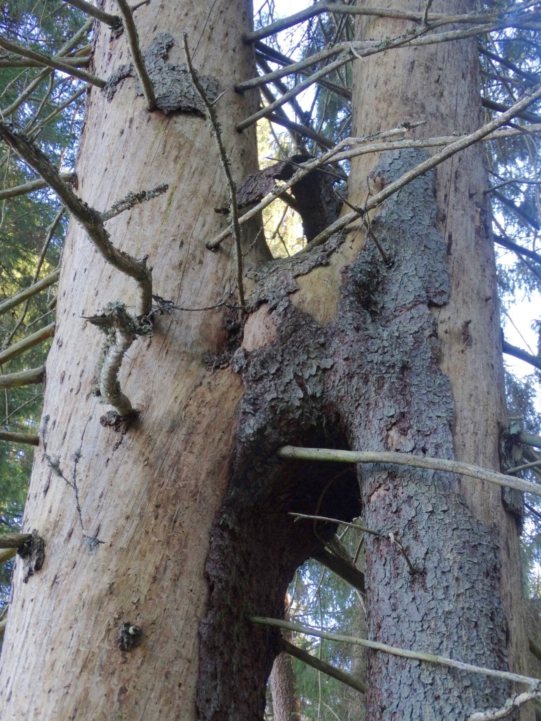 Gražutė Forest Spruce Sisters, Zarasai district, Lithuania